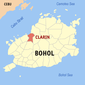 Map of Bohol showing the location of Clarin